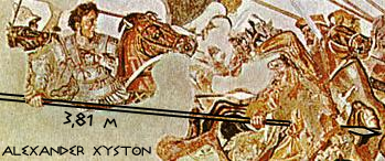 The Alexander's of Macedony xyston (spear)